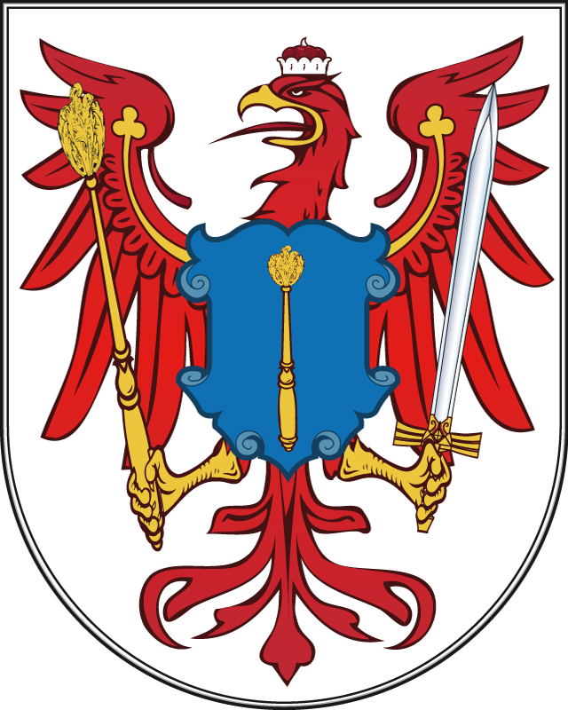 Arms of the electorate of Brandenburg, later arms of the Prussian province Brandenburg.